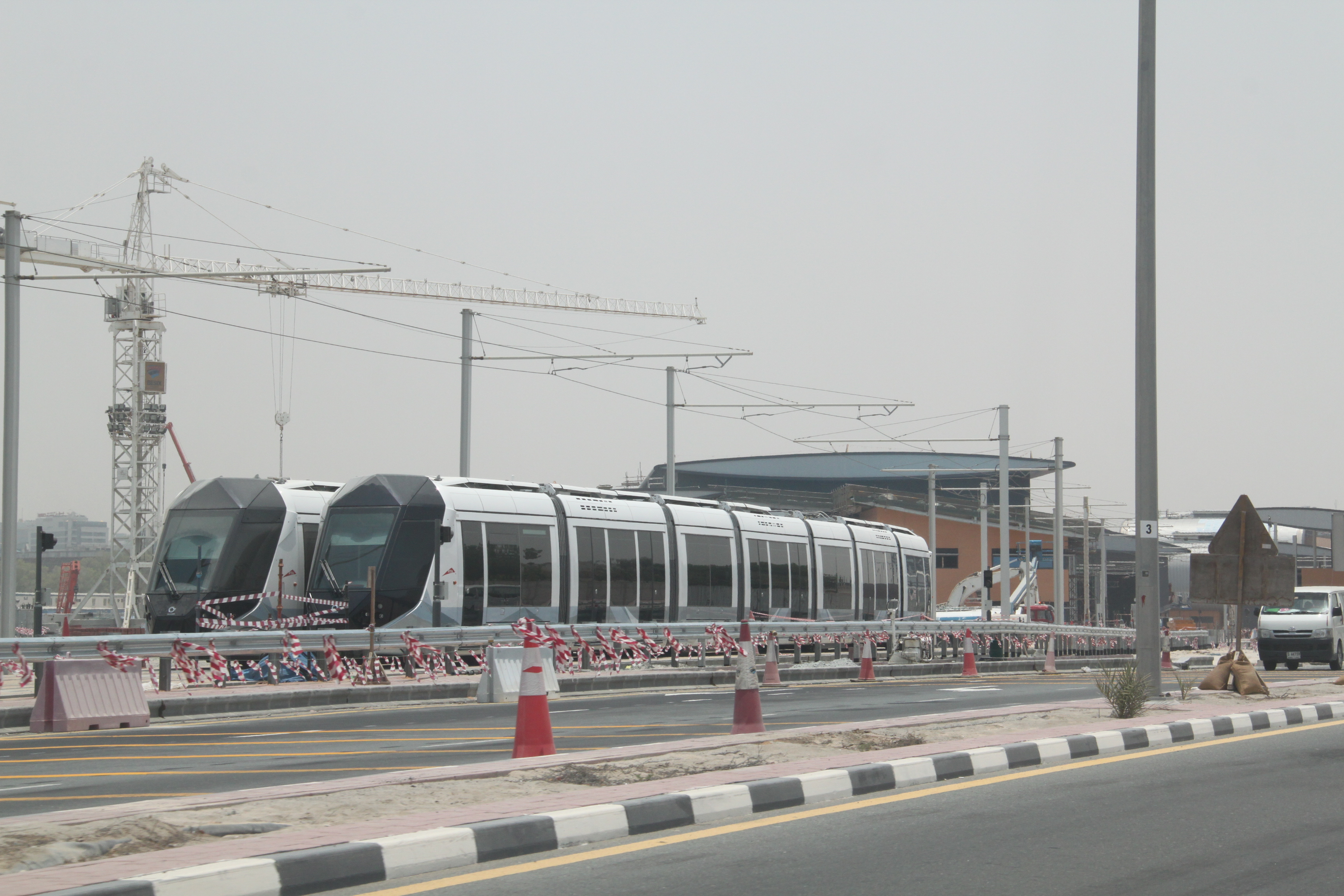 Tram depot of the Dubai Al Sufouh tramway with two Citadis 402.